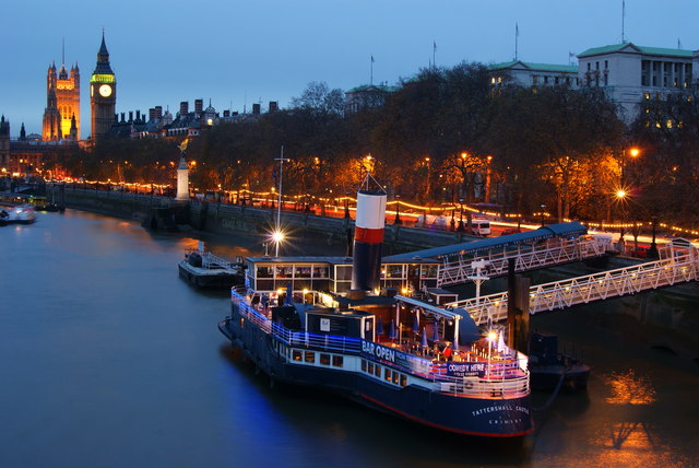 Victoria Embankment, London Photographed from the Golden Jubilee Bridge. In the foreground is the Tattershall Castle, a paddle steamer dating from 1934. Looking along the Victoria Embankment, the RAF Memorial (WWI) overlooks the River Thames, and is illuminated. The portion of the Victoria Embankment, beyond the memorial, is in the next grid square. In the distance, Big Ben and part of the Houses of Parliament can be seen.